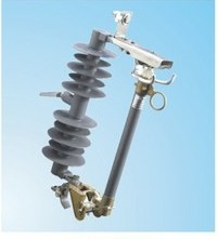 33KV polymer fuse cutout. This is a combination fuse and switch which is connected between an overhead high voltage power distribution line on a utility pole and a service drop, a feedline to the customer's building. It serves as an overload protector and a device for opening and closing the ciruit. If there is an overload or short ciruit in the customer's wiring, the metal bar will melt and the device will pivot open to indicate the problem. It can also be opened manually to disconnect the power while the line is energized, by a lineworker on the ground, using a long insulated fiberglass pole with a hook, called a hotstick. Model: HV-21 Rated voltage: 30 kV Rated current: 100 A Breaking current: 6000 A Impulse voltage (BIL): 170 kV Power frequency withstand voltage: 70 kV Leakage distance: 700 mm Weight: 15 kg Dimensions: 56 x 38 x 14.5 cm Certificate: ISO9001:20084